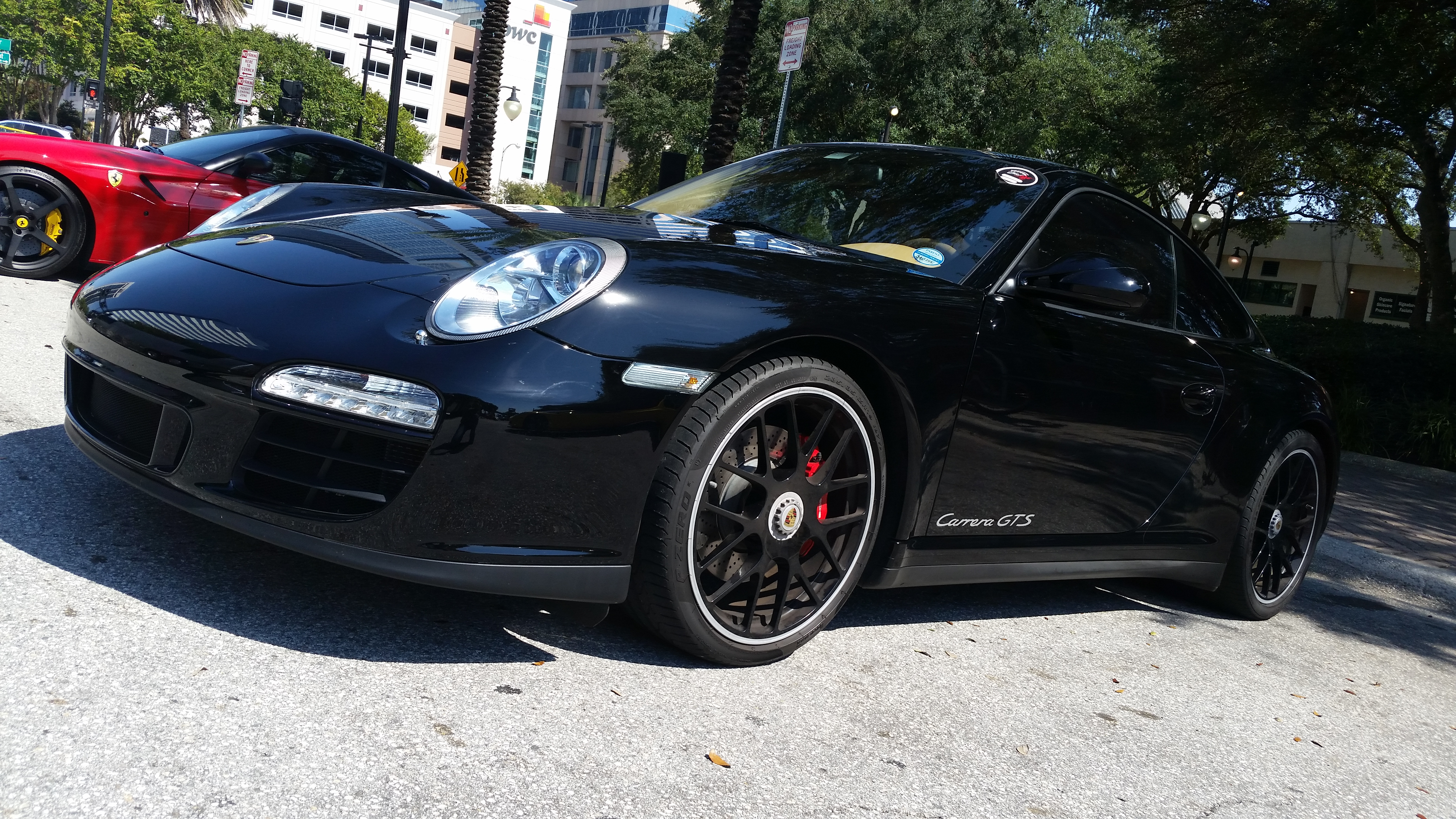 Black Porsche 997 Carrera GTS coupe in Jacksonville, Florida USA. :Photographs taken on 2015-10-17 during Excellerate Car Drive, Jacksonville Landing, 2 Independent Dr, Jacksonville, FL 32202, US.